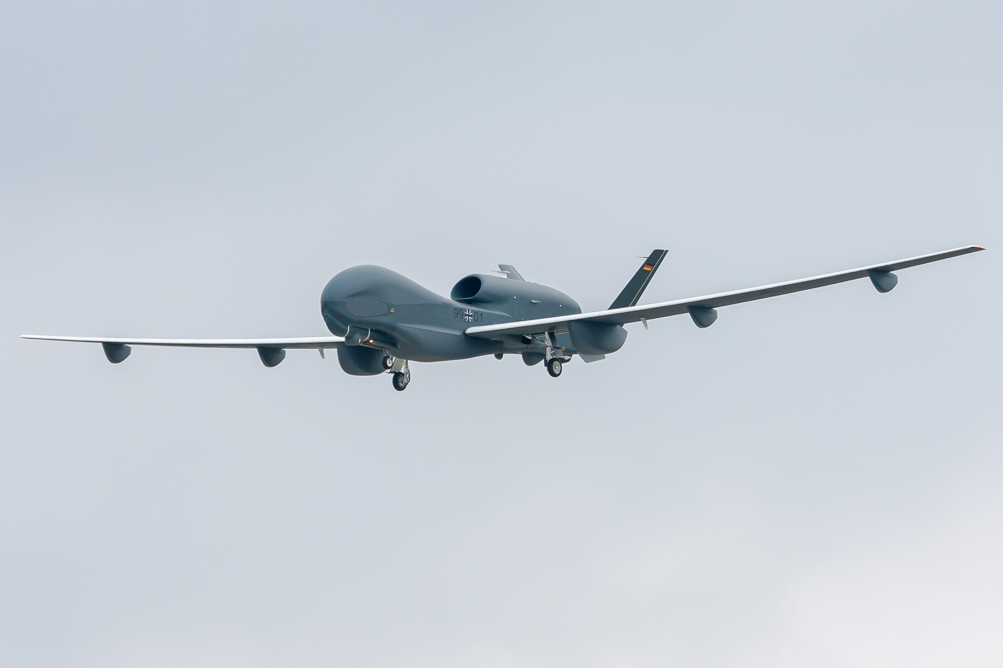 Euro Hawk (Global Hawk) landing in Manching (ETSI).